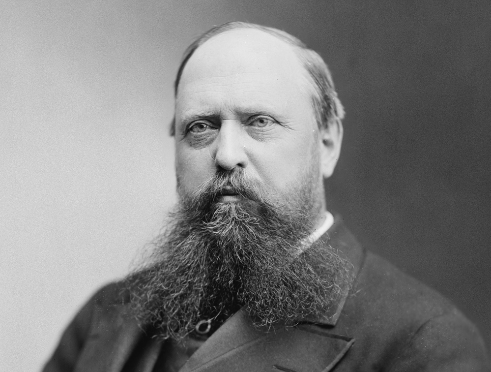 Othniel Charles Marsh. Library of Congress description: "Marsh, Prof. O.C. of Conn.".